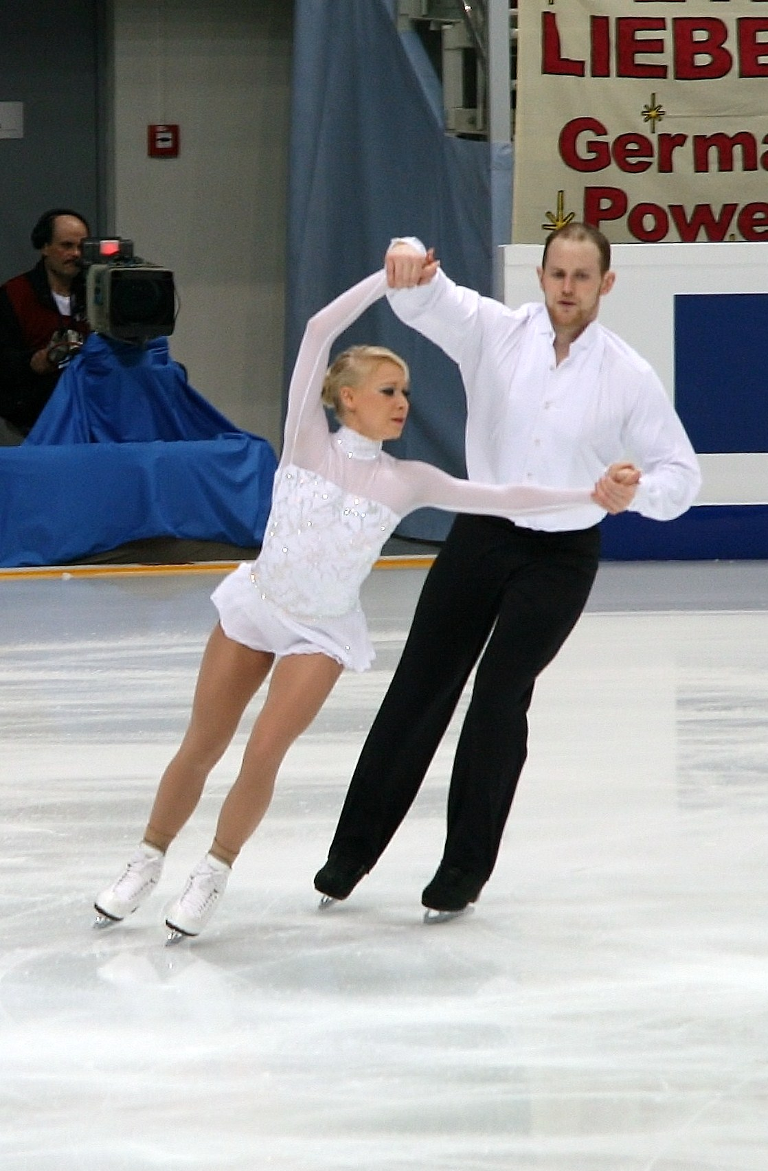 Caitlin Yankowskas and John Coughlin at the 2011 World Figure Skating Championships